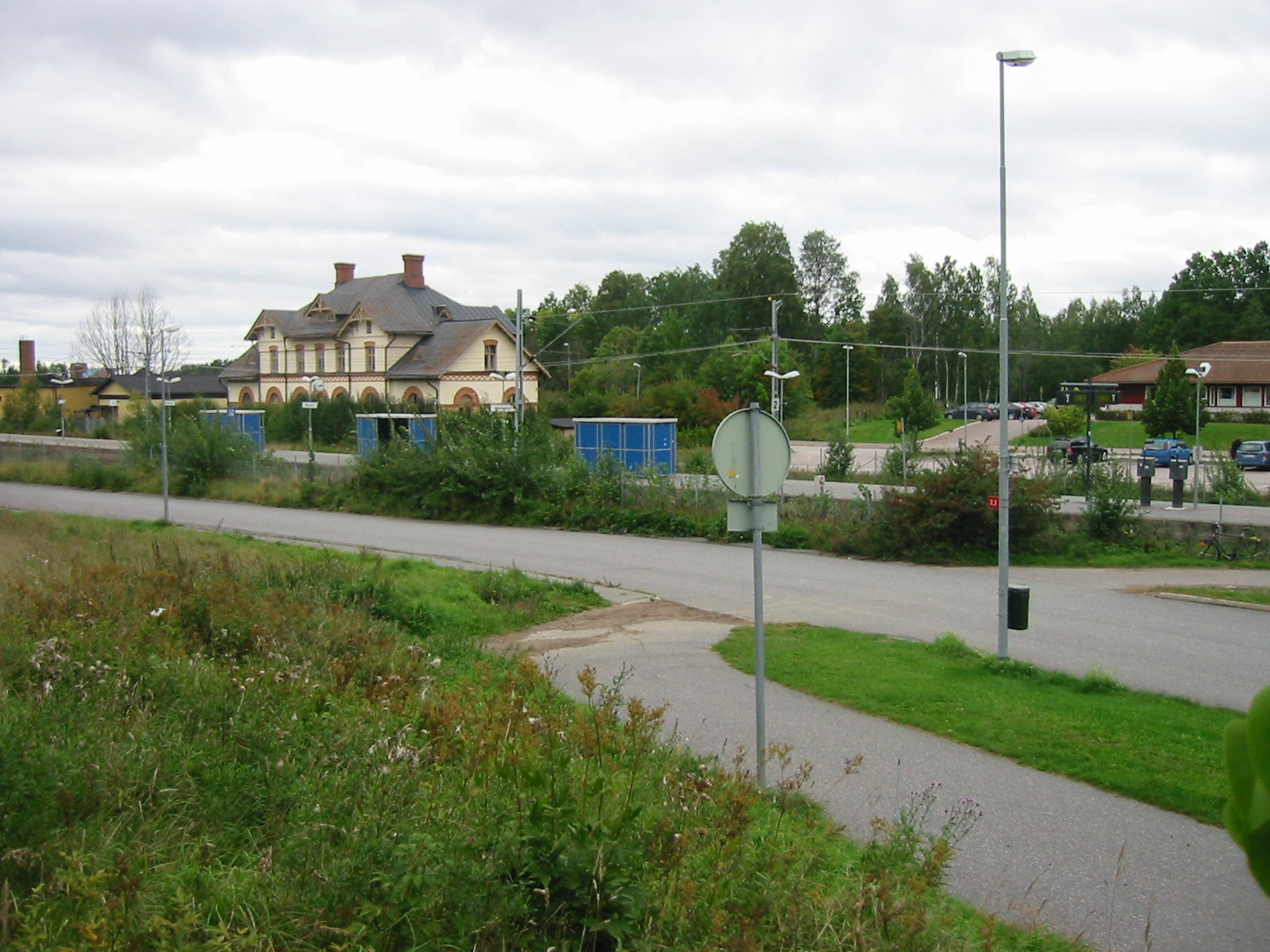 View of Hallstahammar railway station.